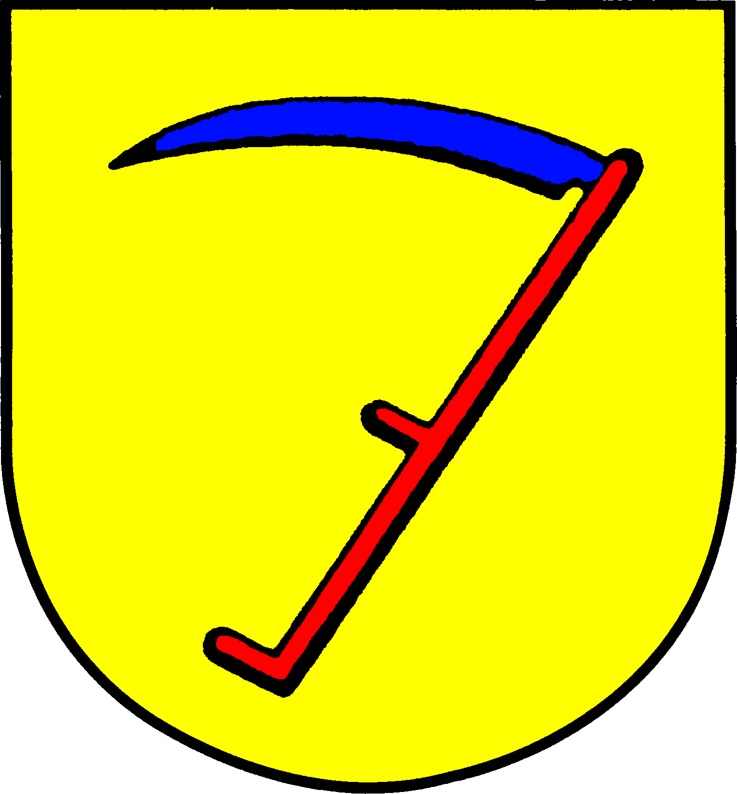 Coat of arms of the former Amt (county) Satrup in Schleswig-Holstein, Germany.